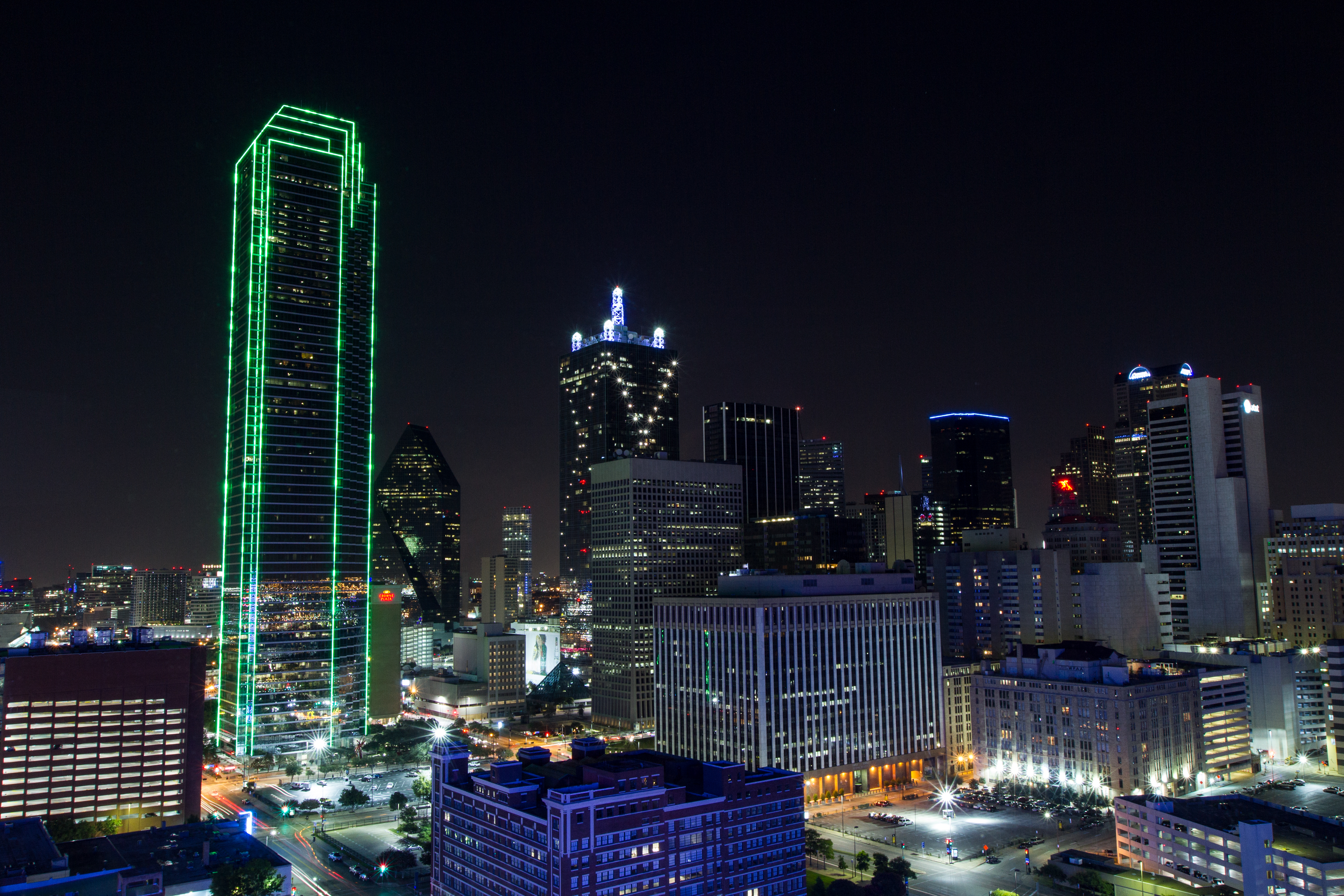 Skyline of Dallas at night taken from the 23rd floor of the Omni hotel.